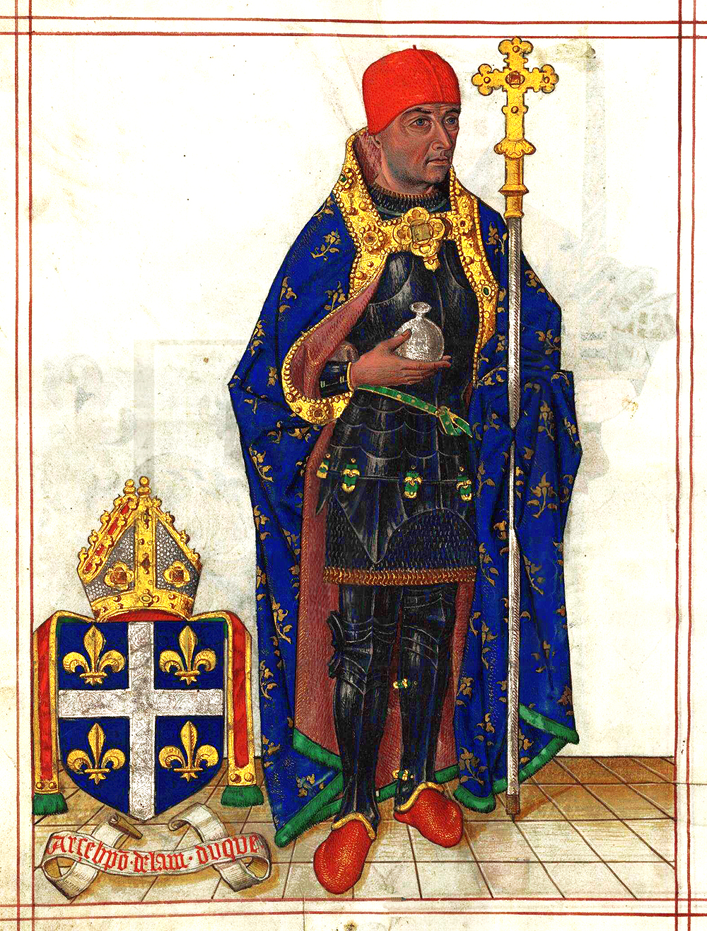 Bishop-Duke of Laon